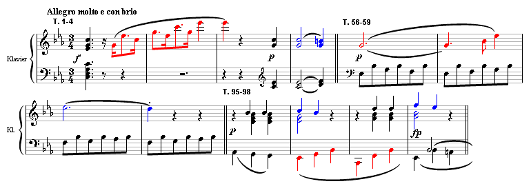 Piano Sonata No. 5 (Beethoven) in C minor, Opus 10, No.1.